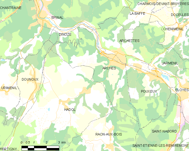 Map of French municipality Arches